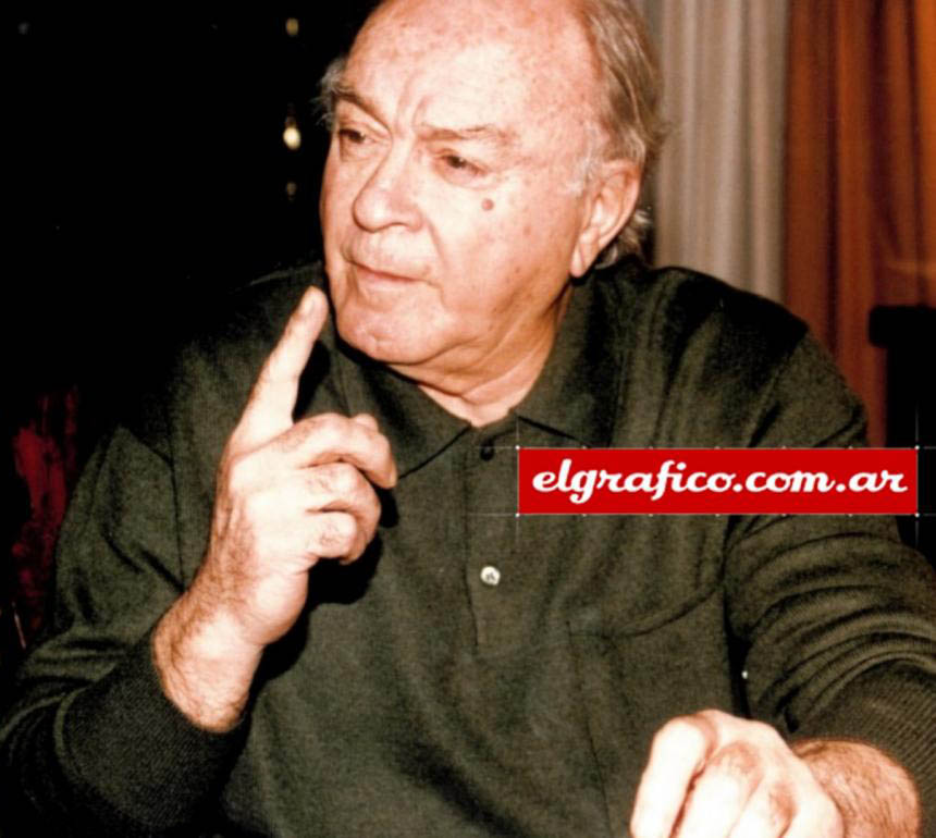 Alfredo Di Stéfano during an interview with El Gráficos journalist, Enrique Romero. The interview was conducted in Spain, where he lived.